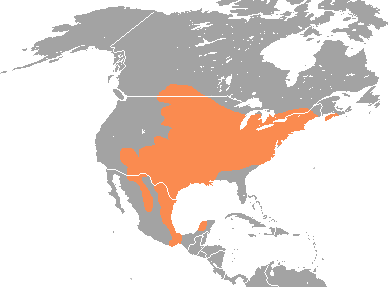 Peromyscus leucopus range map